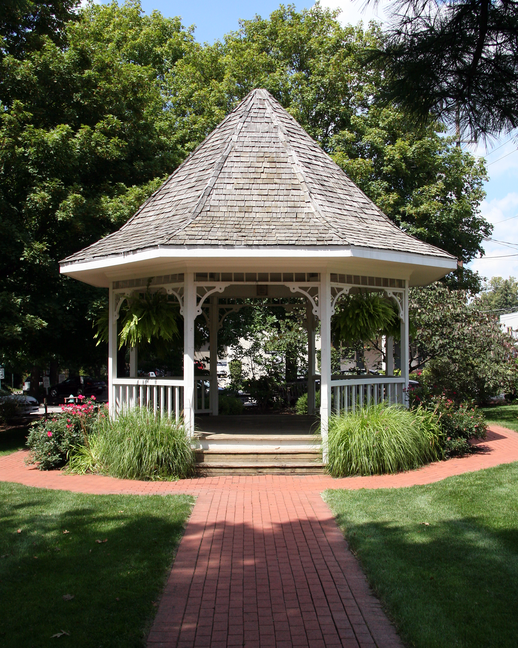 The gazebo at Lincoln Park in Zionsville, Indiana, built on the site of the town's first railroad depot. Photo looks north.